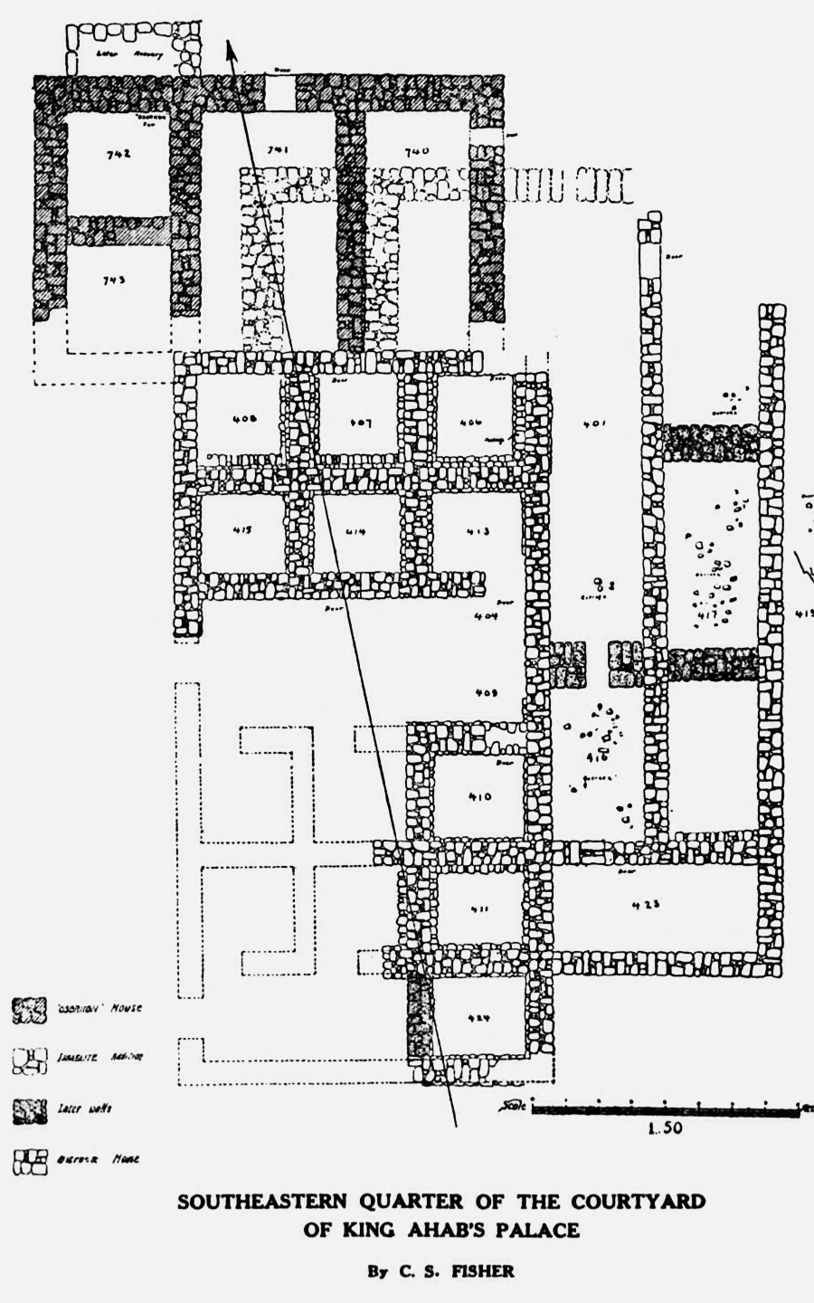 Image of the Ostraca House, published 1910